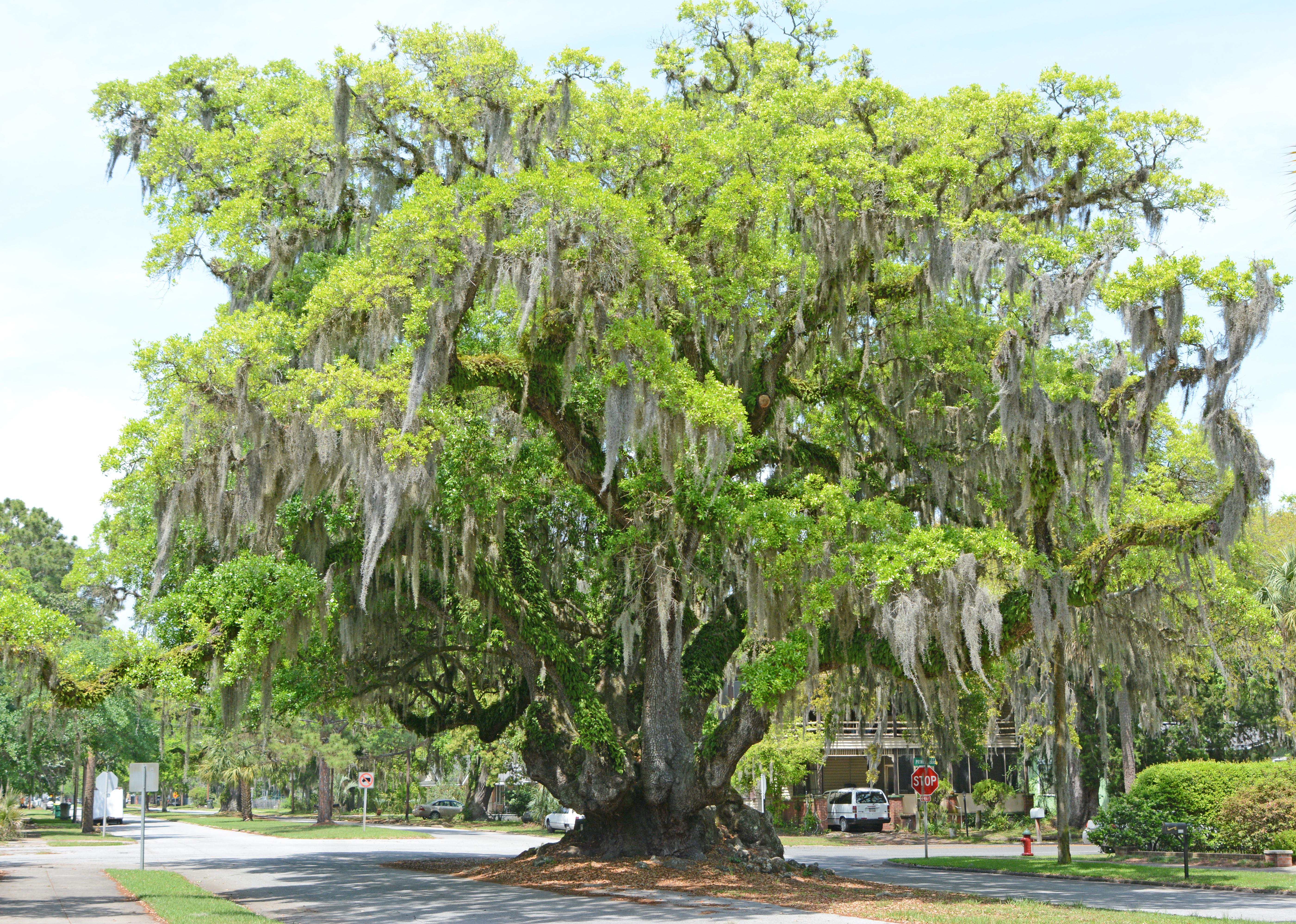 Lover's Oak - a live oak tree in Brunswick, Georgia, USA